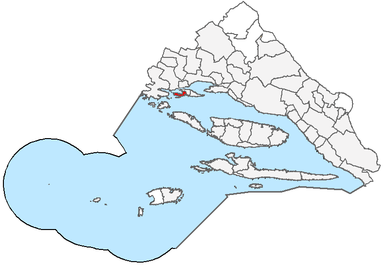 Creek